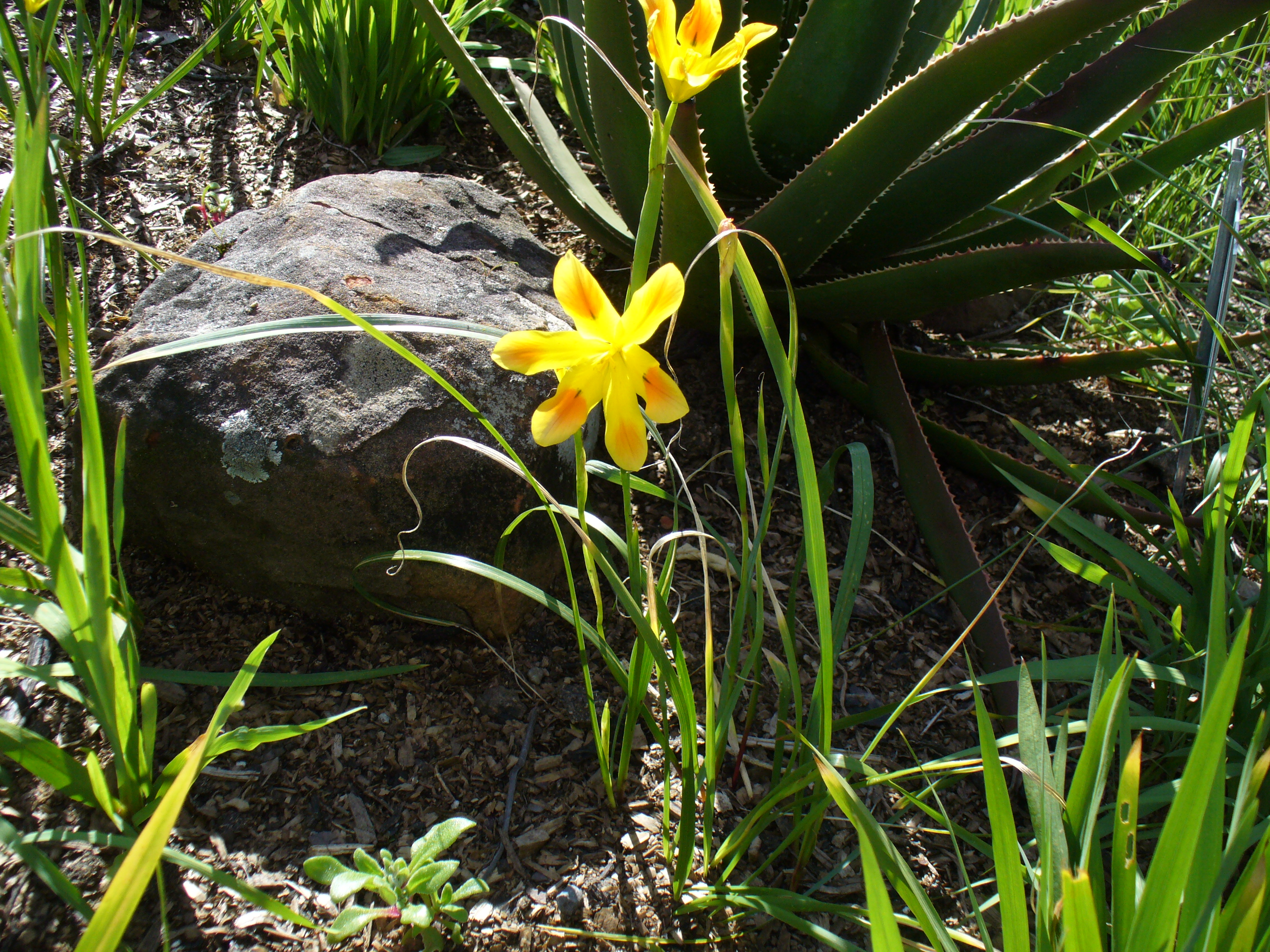 Moraea comptonii (L Bolus) Goldblatt